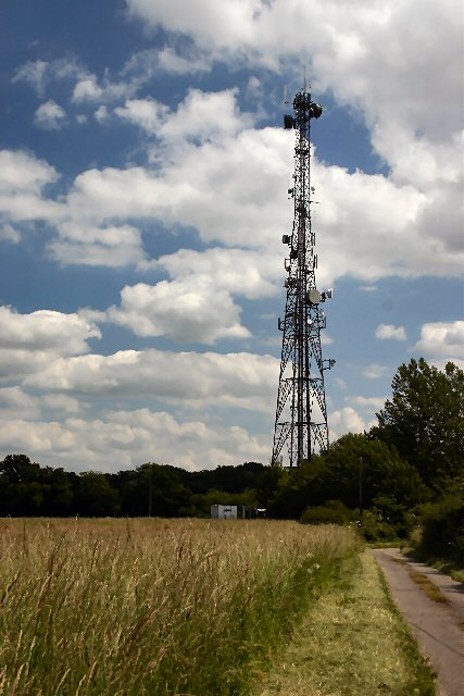 Suffolk's county top. This mast, at Elms Farm, sits astride Suffolk's highest point, at 420 feet.